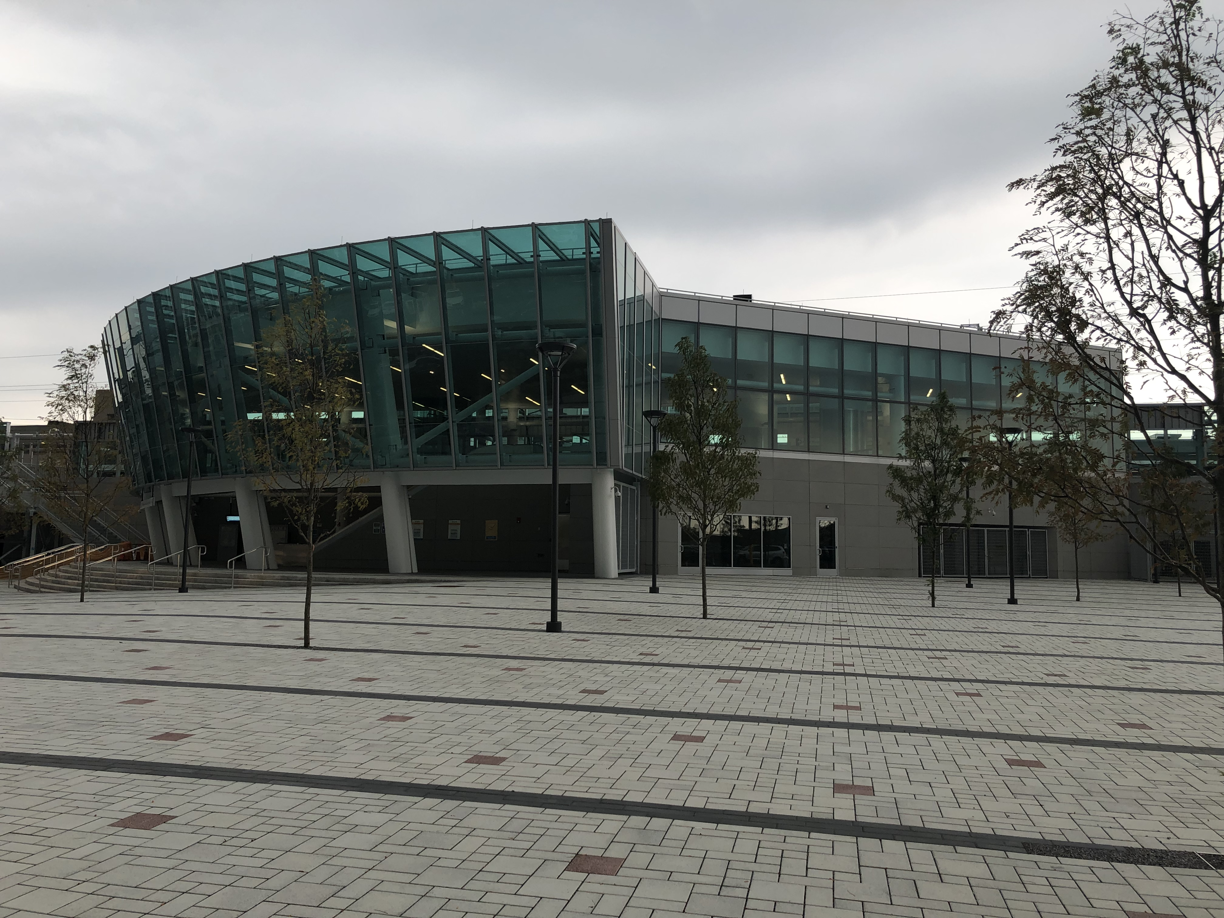 The entrance to the new Harrison station, for WTC-bound PATH trains. Please be aware that unless you are brave enough to do so, DO NOT TAKE PICTURES OF PATH WITHOUT PROPER PERMISSION FROM THE PORT AUTHORITY OF NEW YORK AND NEW JERSEY.